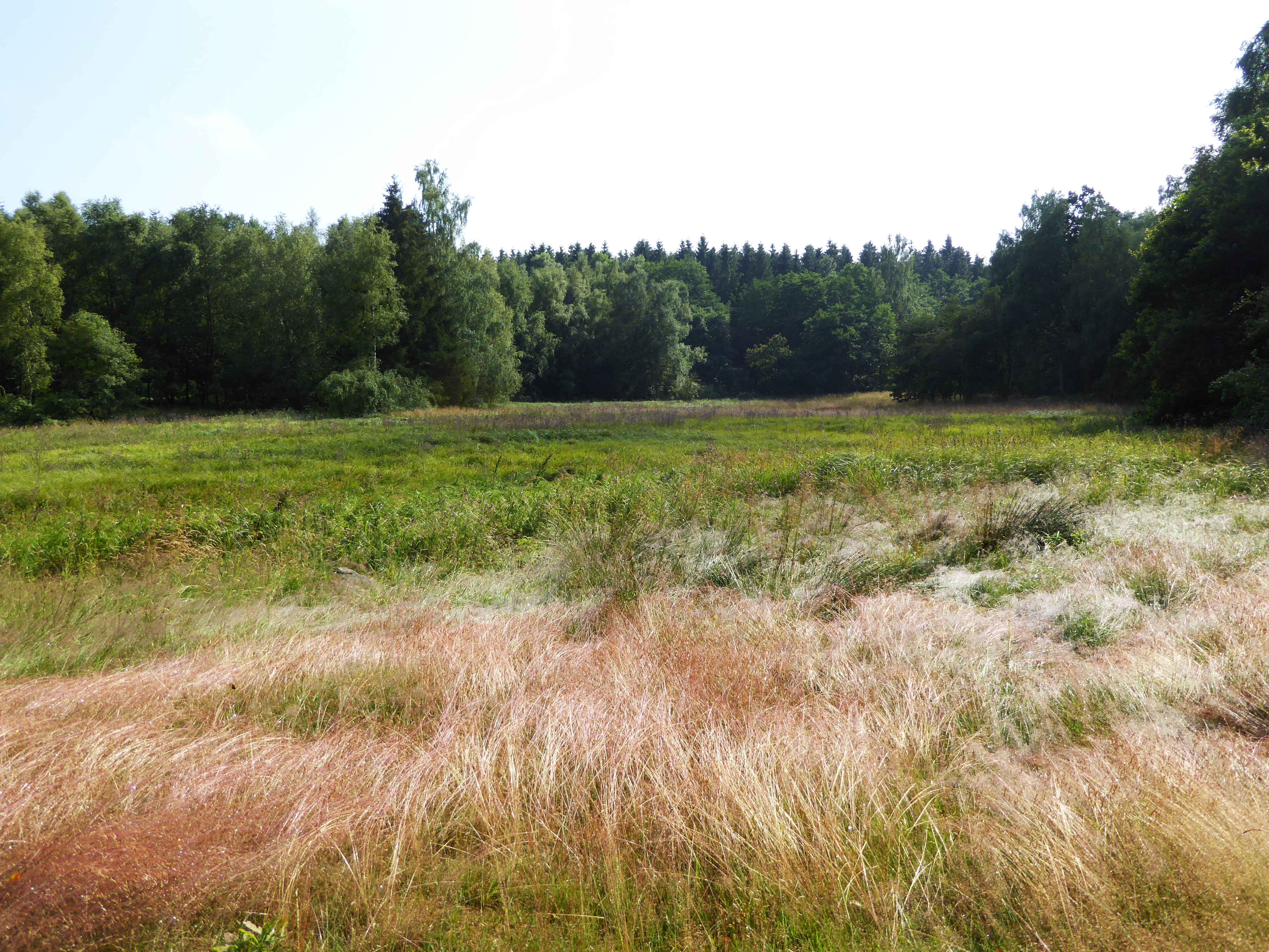 Malte Enghave in Store Dyrehave at Hillerød, Denmark